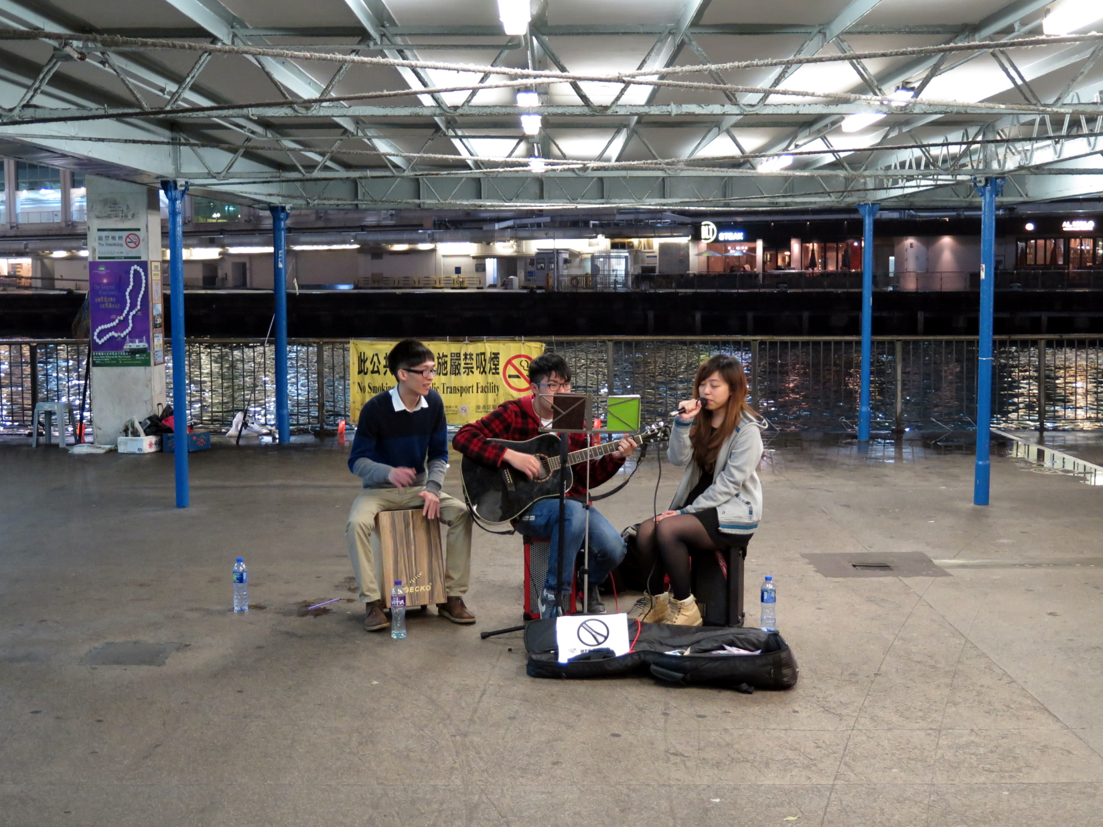 Performance near Star Ferry Public Transport Interchange